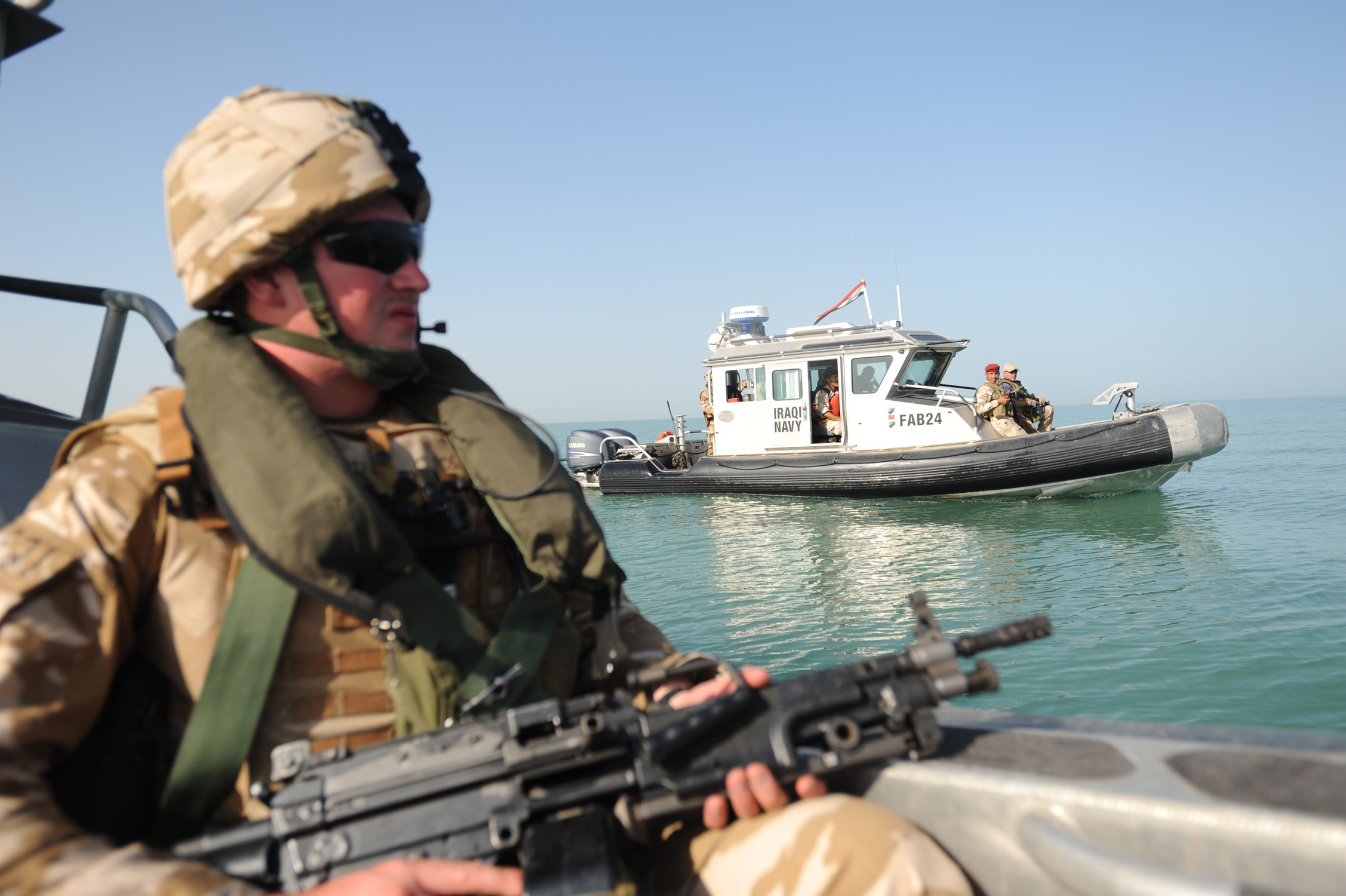 UMM QASR, Iraq (Oct. 4, 2010) A British Royal Marine, assigned to coalition security forces at Umm Qasr camp, provides security for Iraqi sailors and U.S. Navy Divers from Combined Task Group (CTG) 56.1 during a transit to an oil rig off the coast of Iraq. CTG 56.1 supports maritime security operations and theater security cooperation efforts in the U.S. 5th Fleet area of responsibility. (U.S. Navy photo by Mass Communication Specialist 1st Class Anderson Bomjardim/Released)